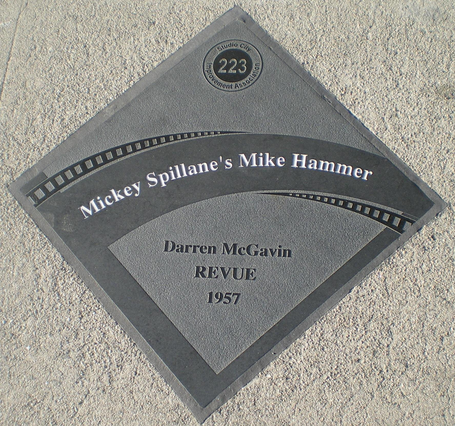 Mickey Spillane's Mike Hammer Diamond Studio City Walk of Fame, Ventura Blvd. at Laurel Canyon, Studio City, CA Ventura Blvd. at Laurel Canyon, Studio City, CA